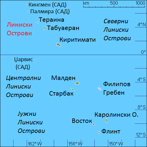 Map in Macedonian of the Line Islands, Kiribati, own work composed from various map references